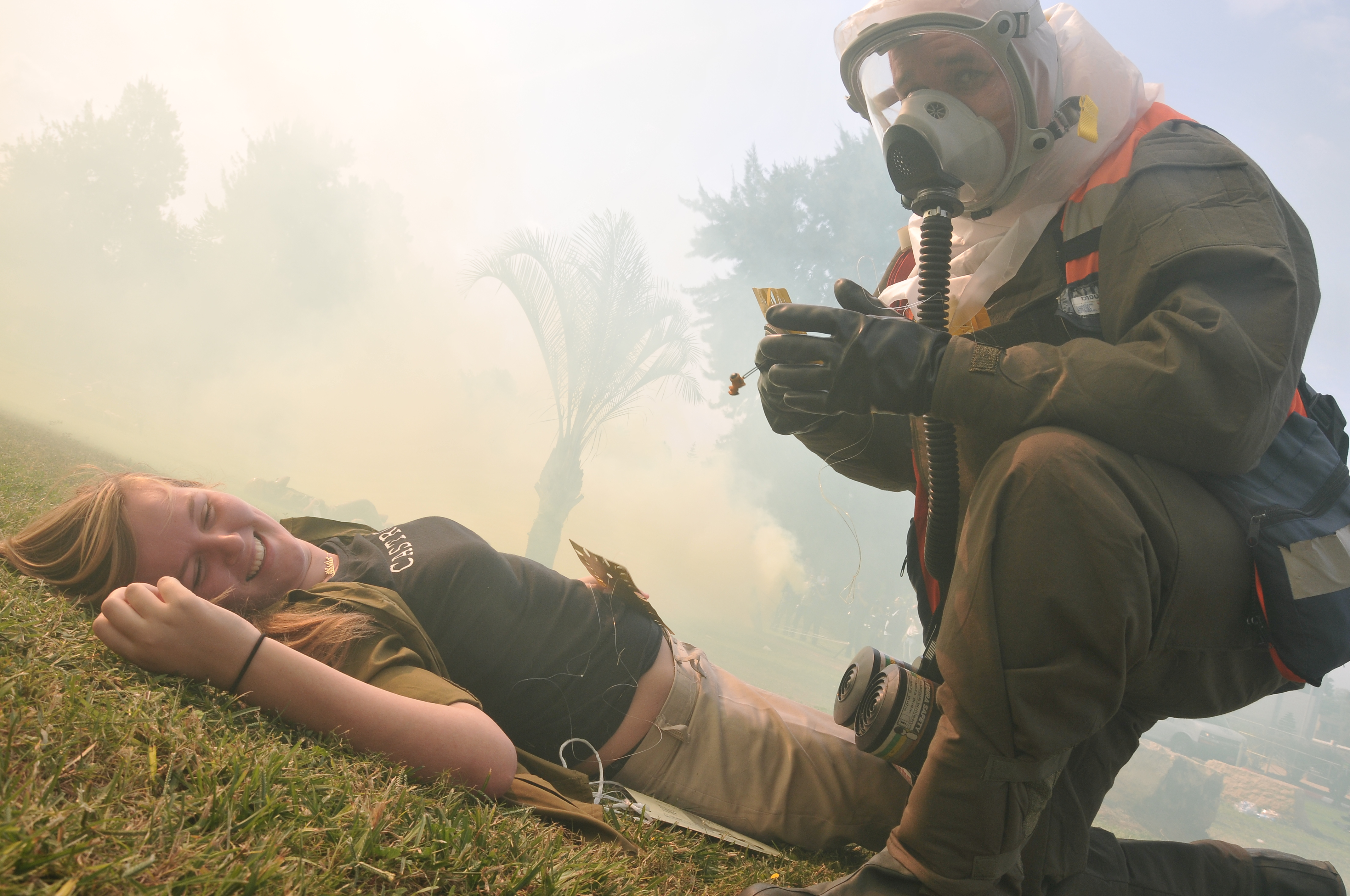 November 3, 2011. Soldiers operate during a Home Front Command drill which simulated a scenario in which missiles were fired on central Israel. The drill is a result of the cooparation between the Home Front Command, the Israeli Health Department, the MDA, the Israel Police and local firefighting forces. The drill was planned by the Home Front Command Medical Branch and the Israeli Ministry of Health, as part of the training program planned for 2011. The Home Front Command as well as the Israeli Ministry of Health will carry on enhancing the capabilities of the local authorities and hospitals in similar scenarios. Photo by Yuval Hakar, Home Front Command Filming Unit.